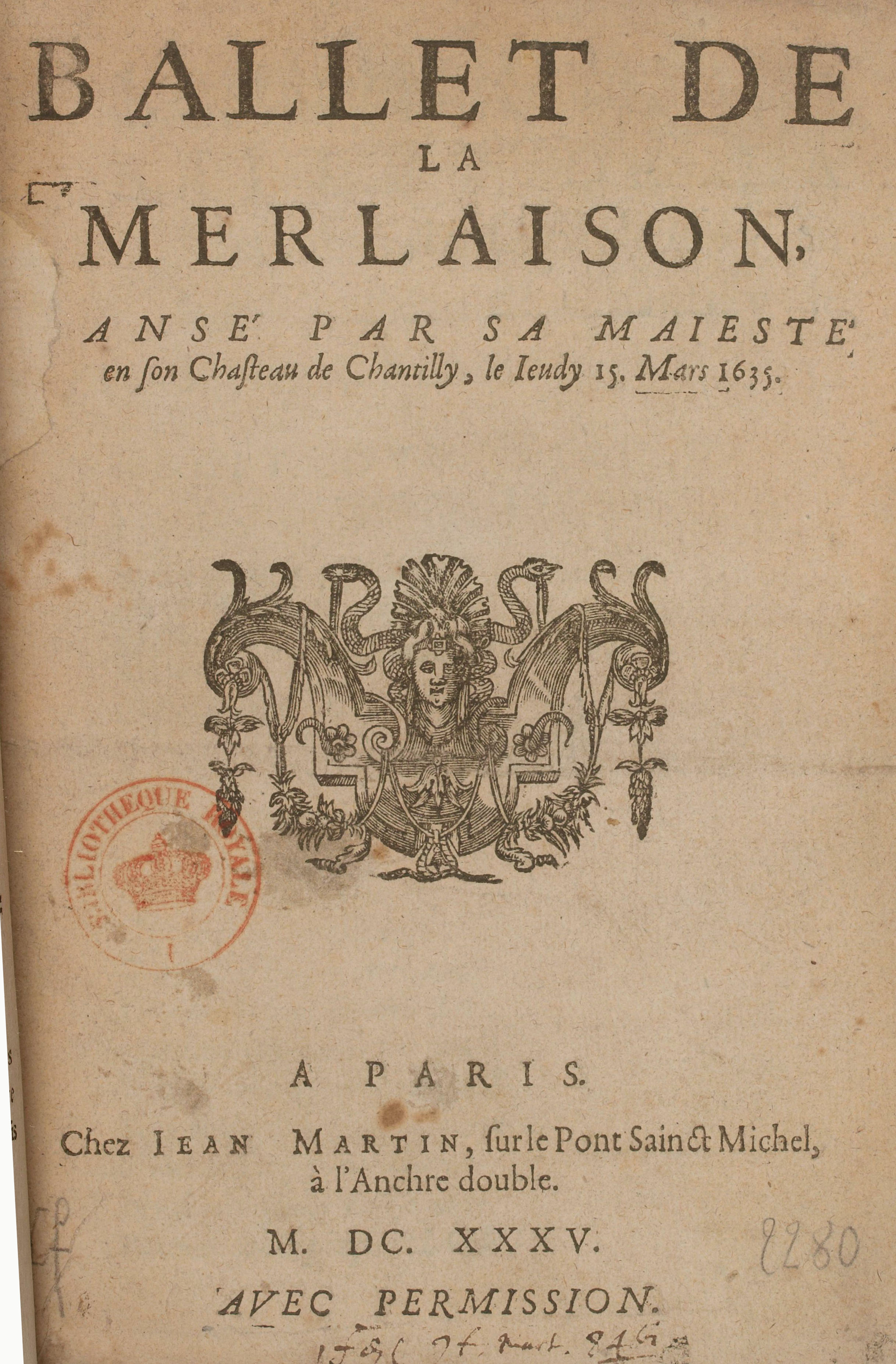 Plot summary booklet (livret) for the Ballet de la Merlaison, written, choreographed, and music composed by King Louis XIII of France